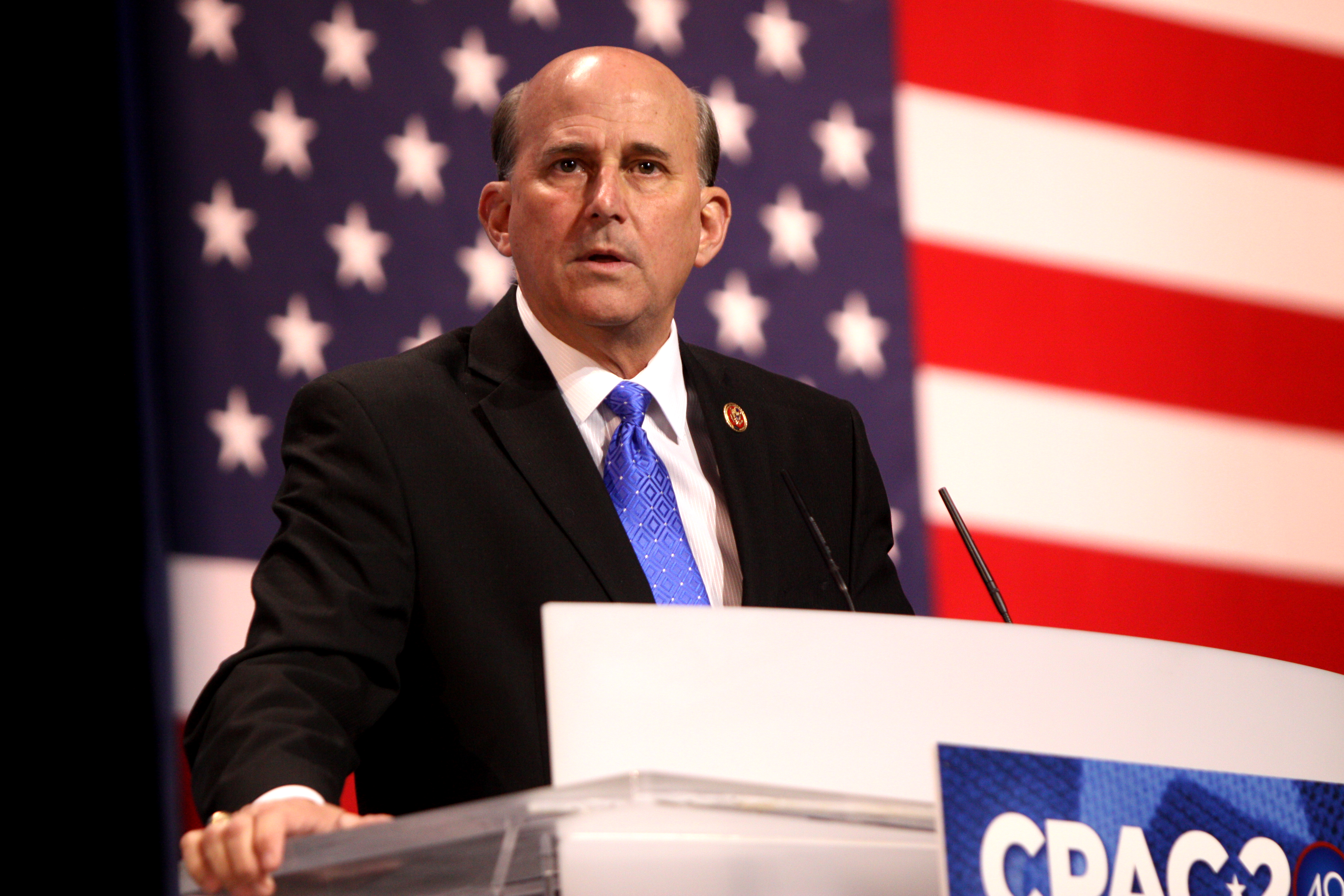 Congressman Louie Gohmert of Texas speaking at the 2013 Conservative Political Action Conference (CPAC) in National Harbor, Maryland.